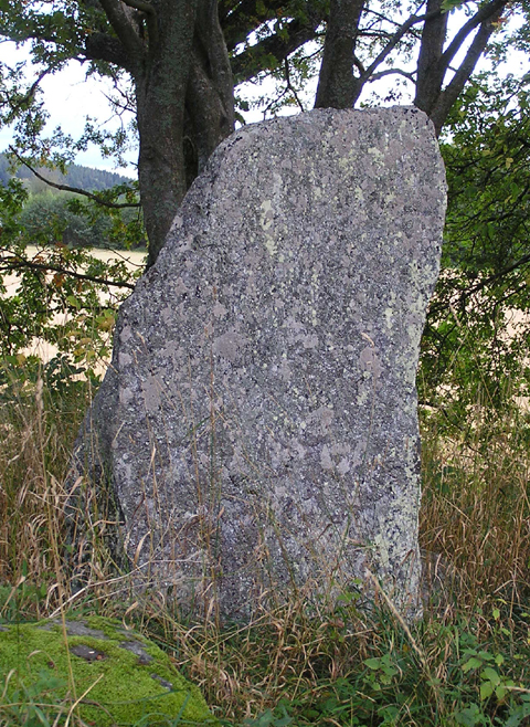 Standing stone located next to runestone Sö 328, Aspö, Södermanland.